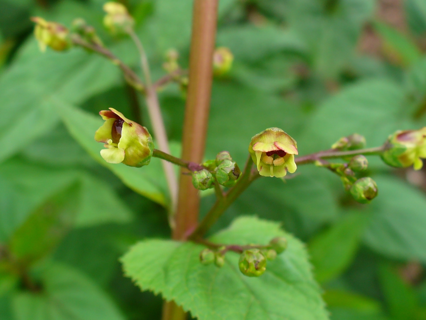 Scrophularia nodosa, Scrophulariaceae, Woodland Figwort, Common Figwort, flowers.